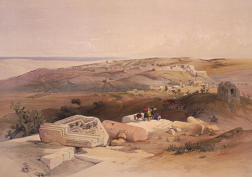 Painting of Gaza, Palestine.